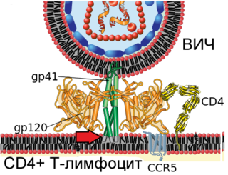 Mechanism of Viral Entry/Membrane Fusion